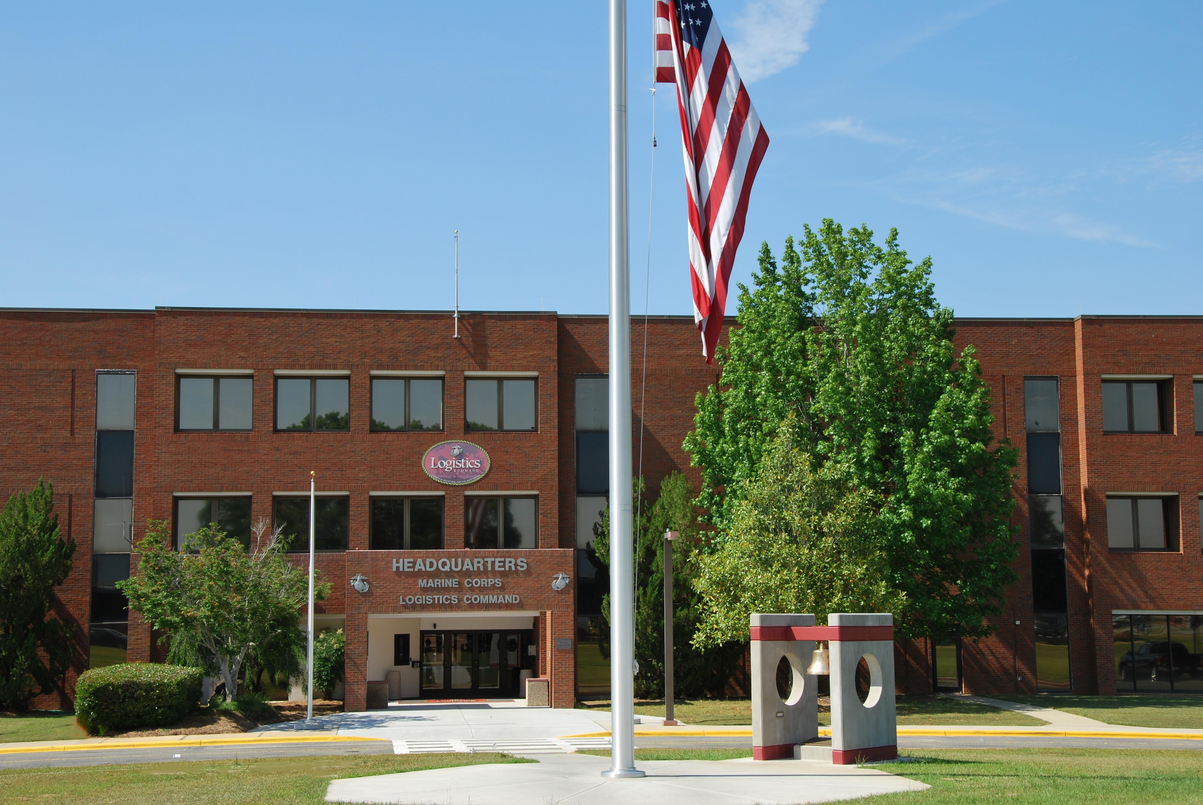 Marine Corps Logistics Command Headquarters in Albany, GA.